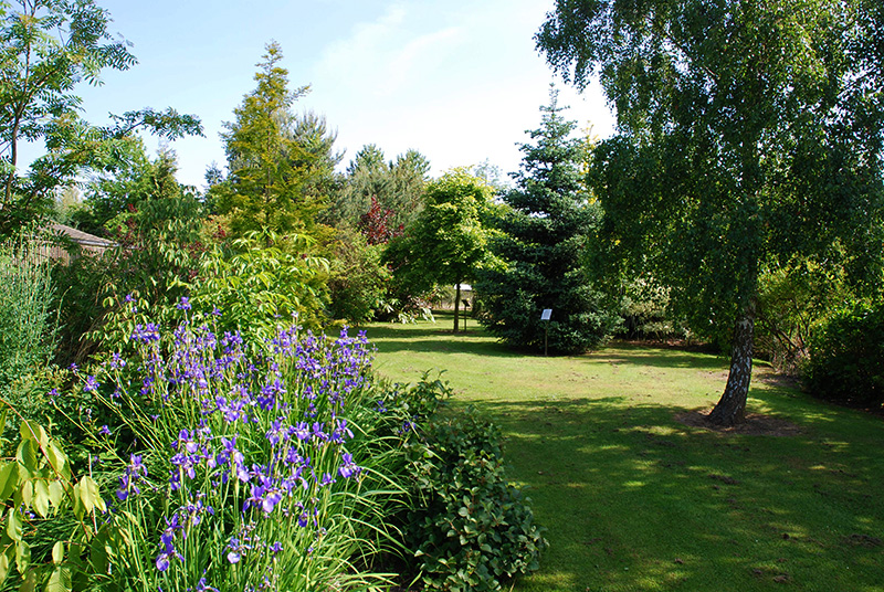 Bluebell Arboretum, England, in Summer, showing border planting.